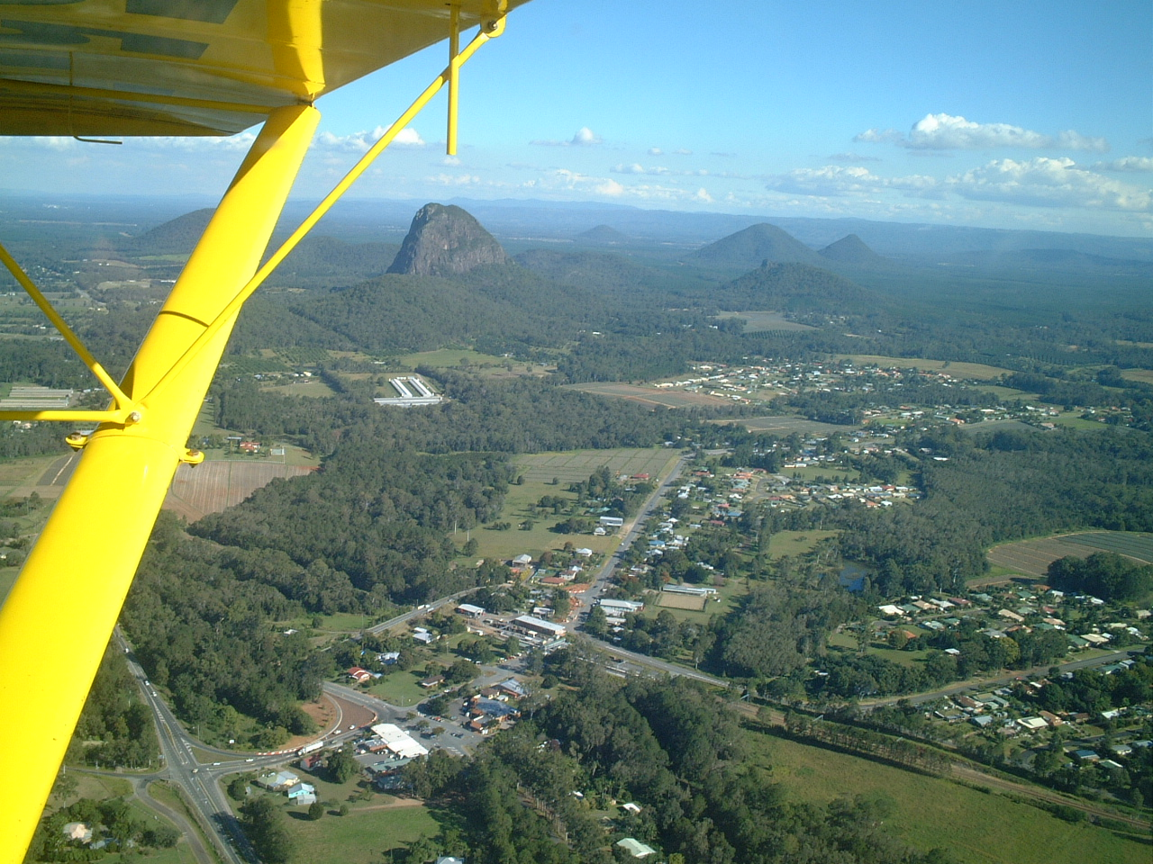 Aerial photo of the Glasshouse township, Qld, and the Glass House Mountains of the Glass House Mountains National Park.Photo by Jesse Karjalainen, taken in 2003, who retains copyright and releases the image under the GFDL.Personal URL